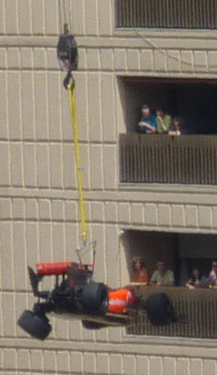 Lewis Hamilton's McLaren is craned off the track following his accident during qualifying for the 2009 Monaco Grand Prix.